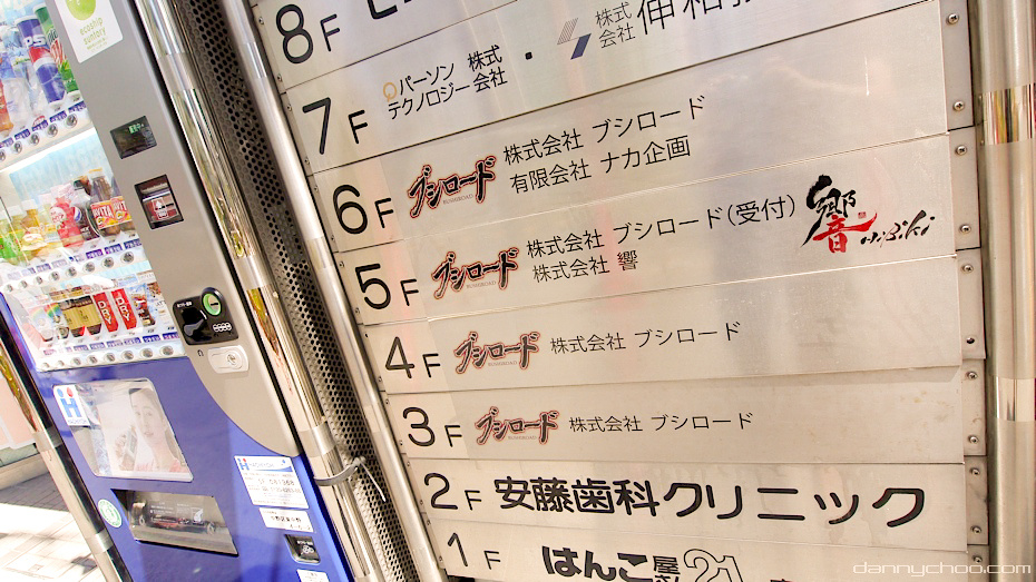 The Headquarter of Bushiroad Inc. The Headquarter of Hibiki Inc.